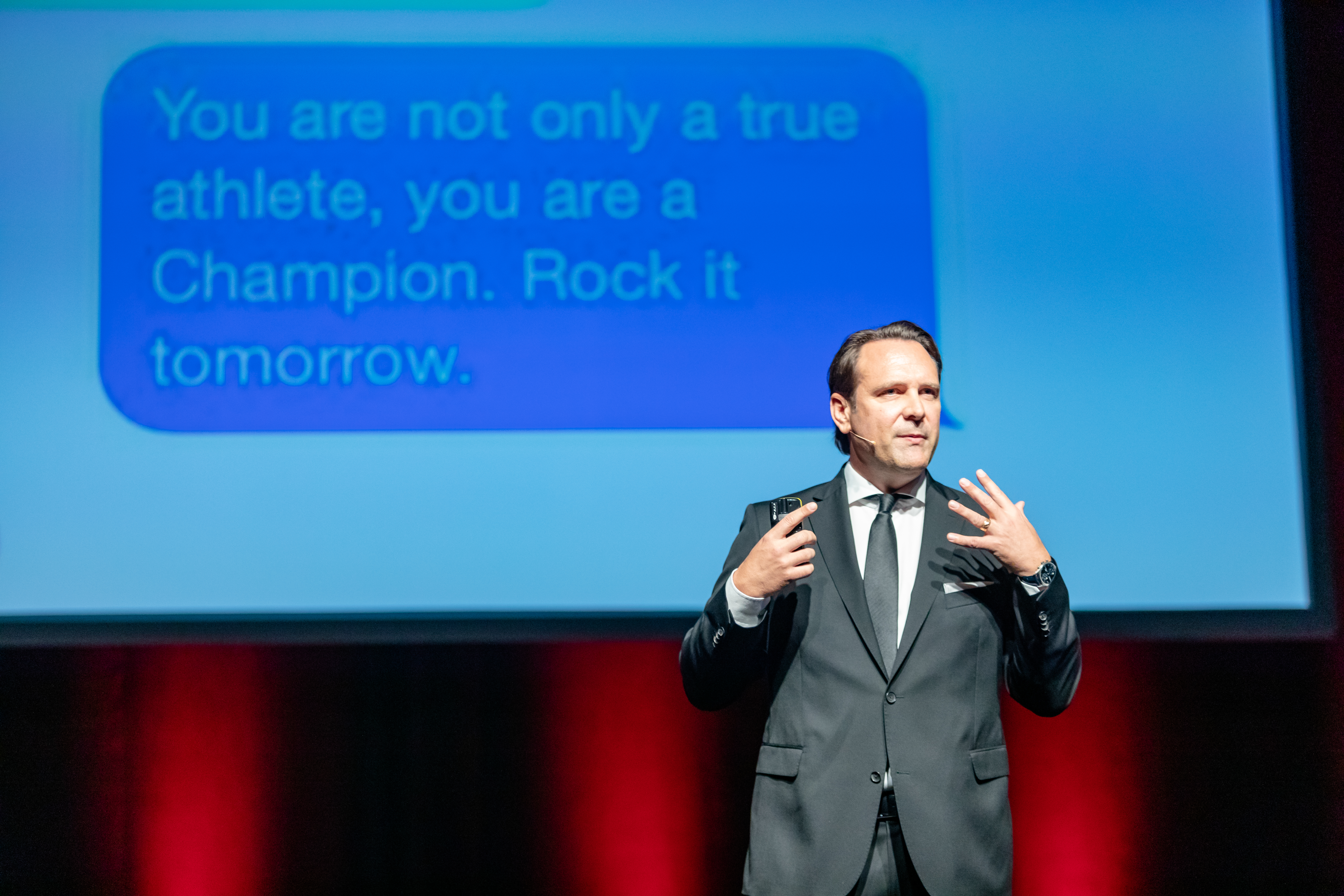 Christian Marcolli during his key note, telling about the last night before Dominique Gisin wins Olympic Gold.